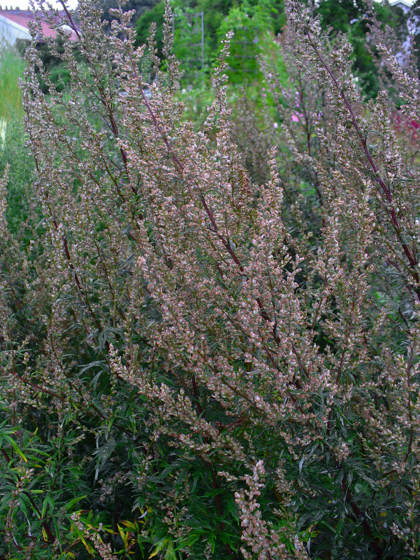 Artemisia vulgaris, Asteraceae, common wormwood, habitus; Botanical Garden KIT, Karlsruhe, Germany. The root is used in homeopathy as remedy: Artemisia vulgaris (Art-v.)